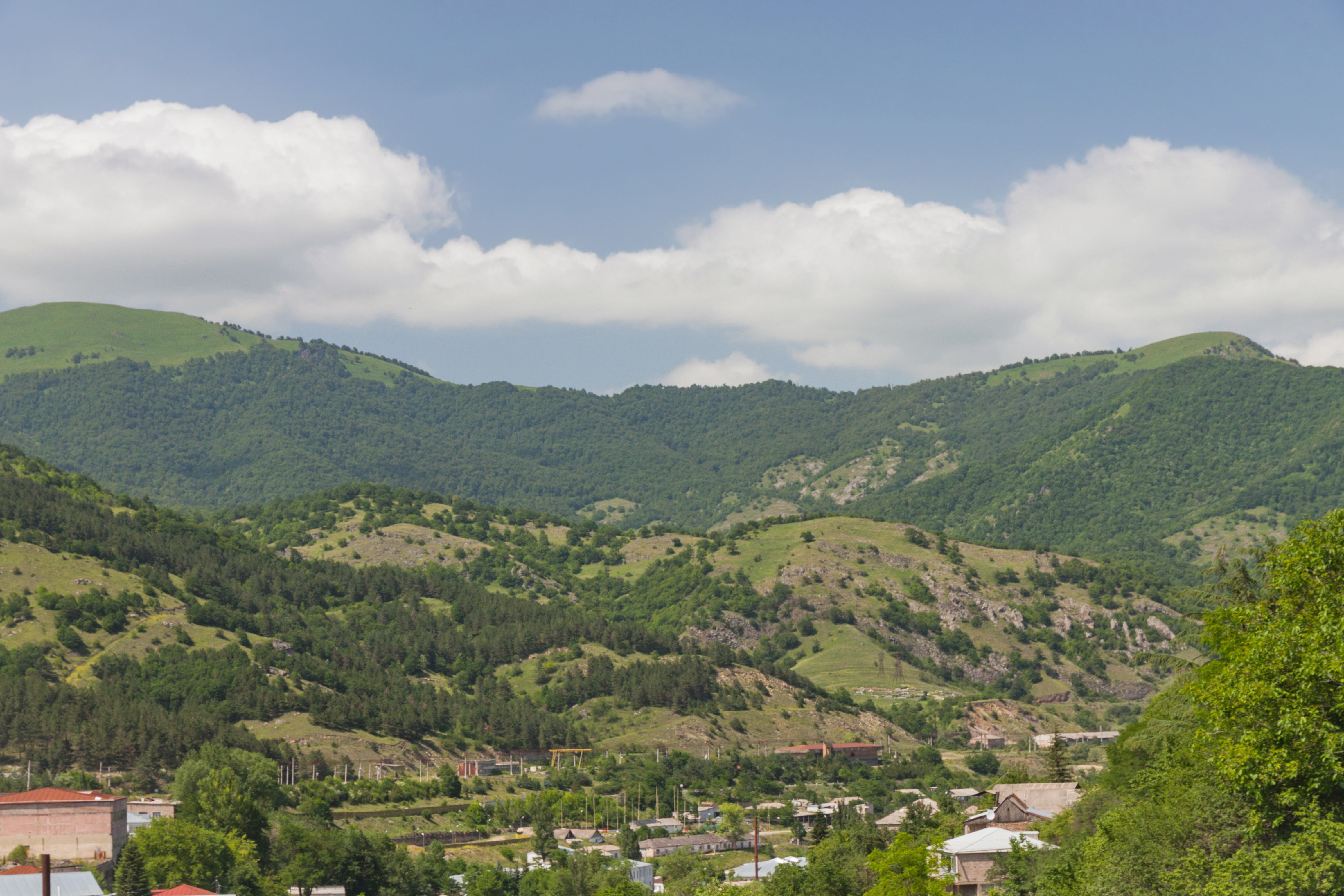 A view of the surrounding landscape. Dilijan, Tavush Province, Armenia.